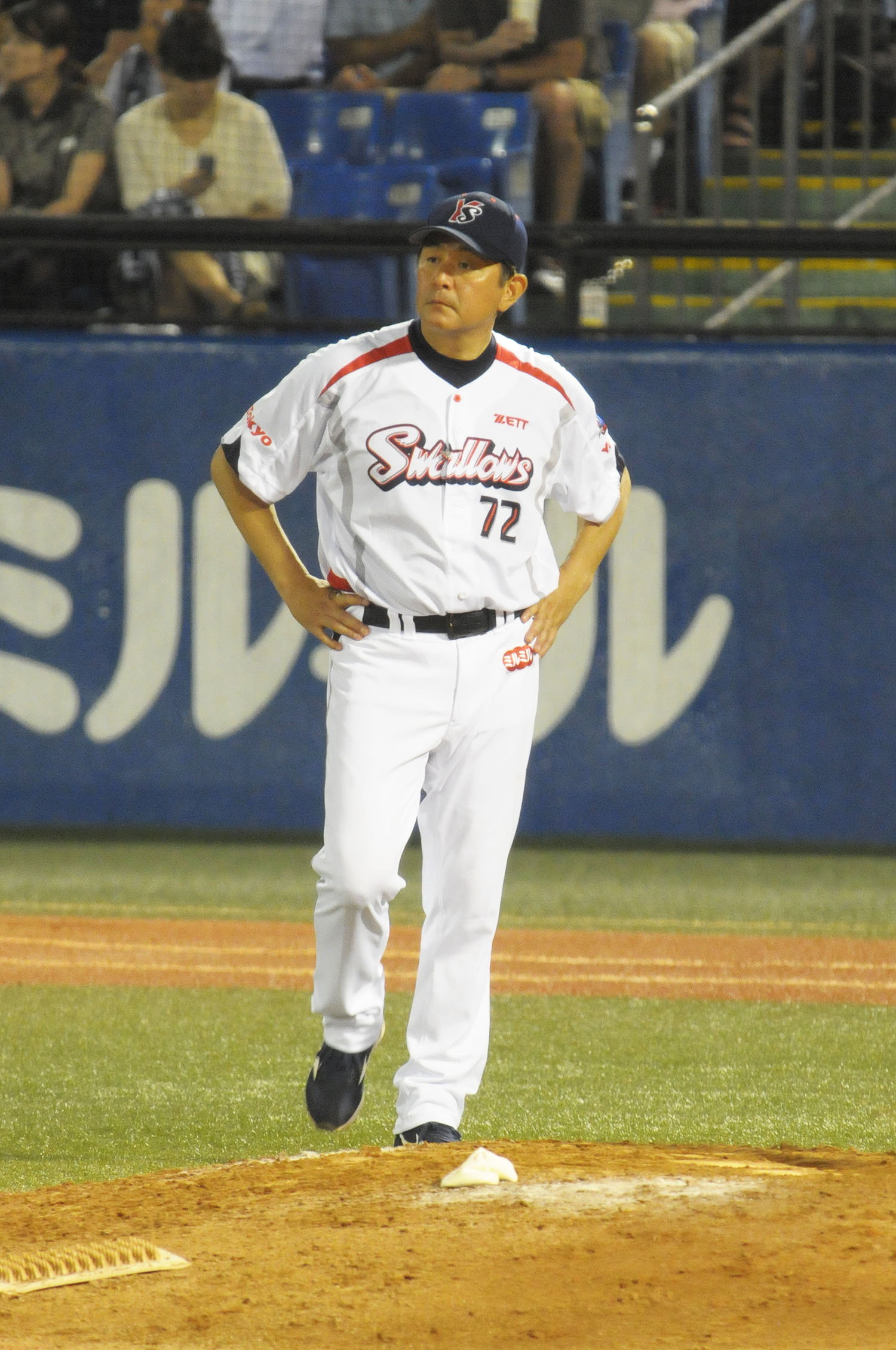 Daisuke Araki, coach of the Tokyo Yakult Swallows, at Meiji Jingu Stadium.